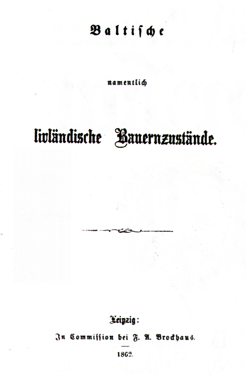 CTitle page Bauernzustände (Baltic, specifically Livonian peasantry), 1862